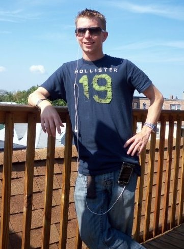 Chelsea Manning (known as "Bradley Manning" at time photo was taken)